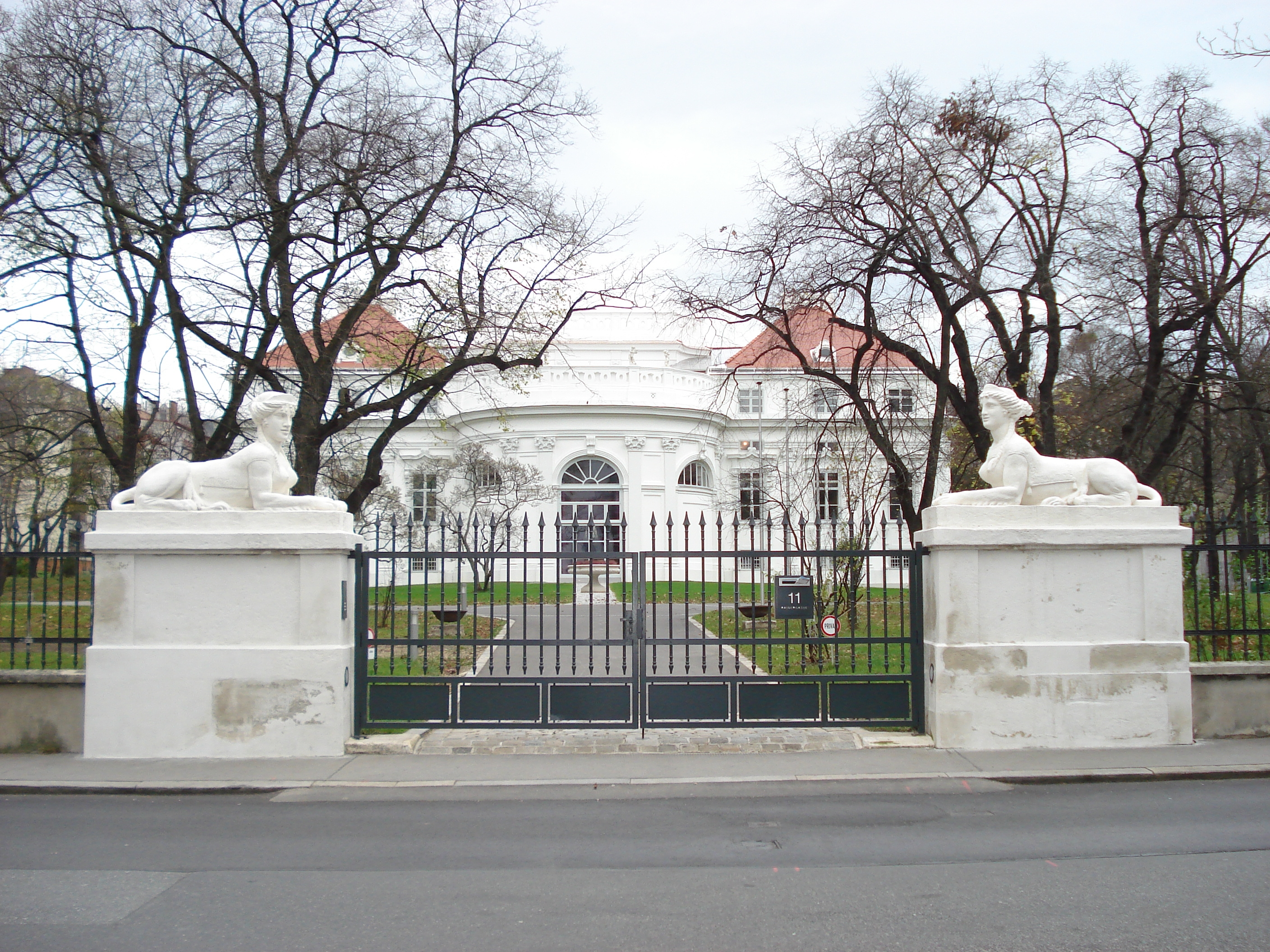 Palais Schönburg in Vienna 4th district Rainergasse 11